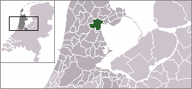 Locator map of Dutch municipalities in Noord-Holland (LocatieWester-Koggenland.png)